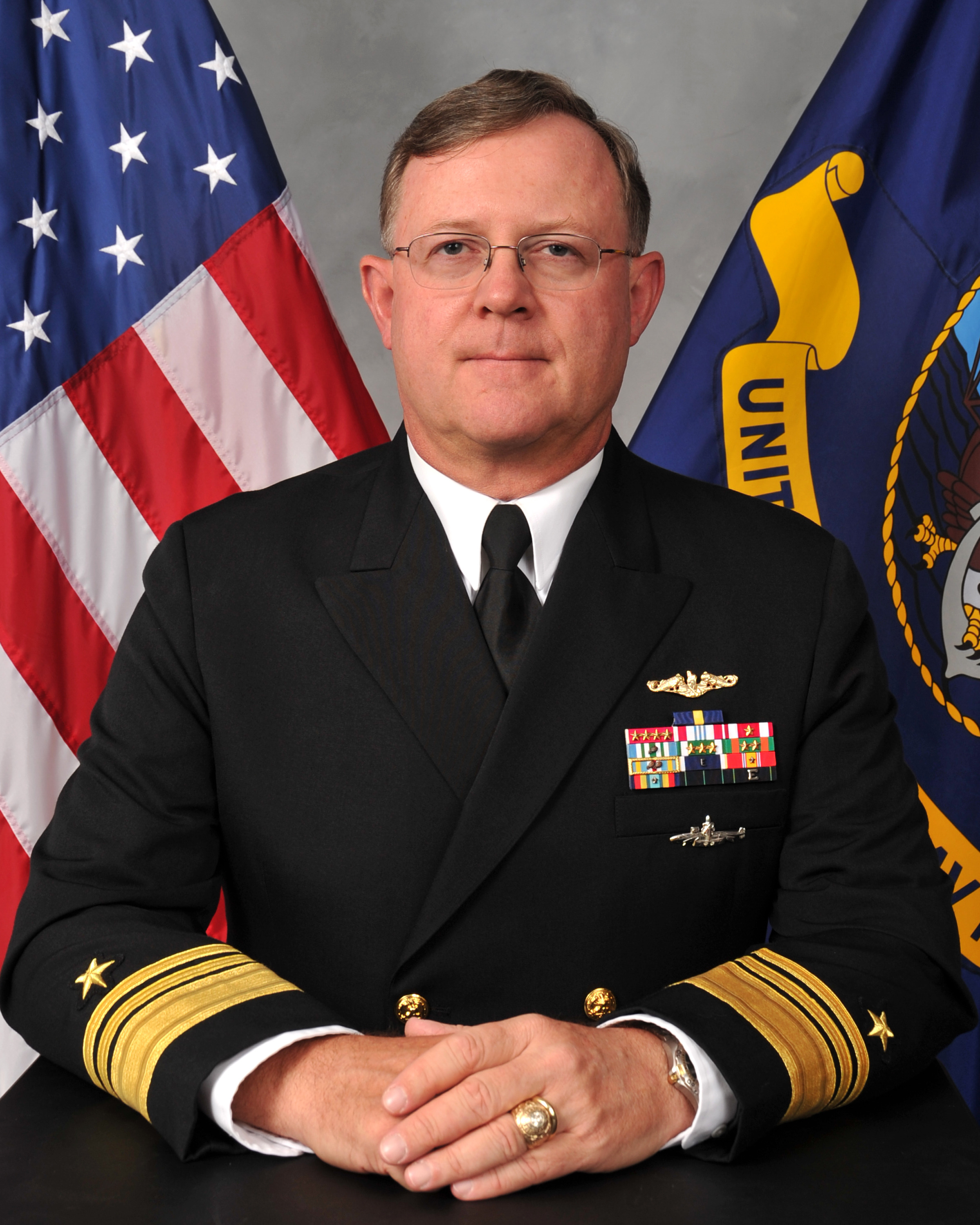 Vice Admiral Timothy M. "Tim" Giardina, Deputy Commander, United States Strategic Command